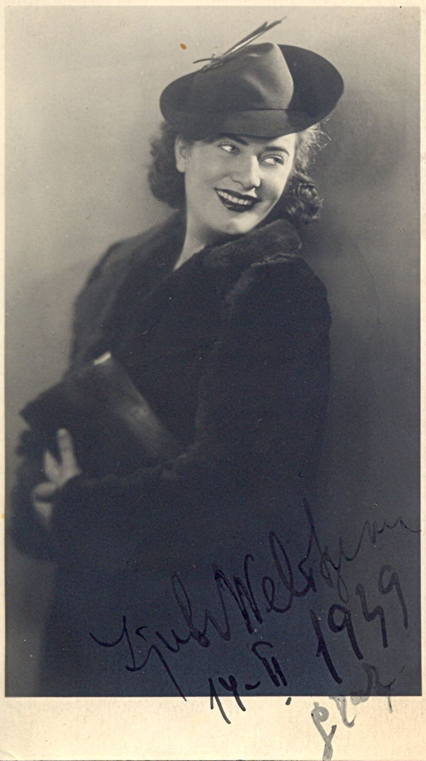 Bulgarian opera singer Ljuba Welitsch